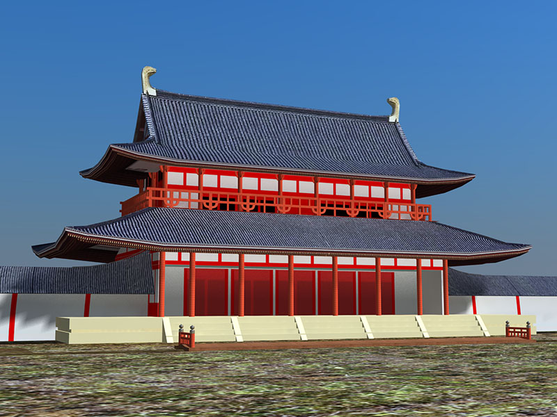 Reconstruction model of Rajōmon.Self-made contributor to miniature model.